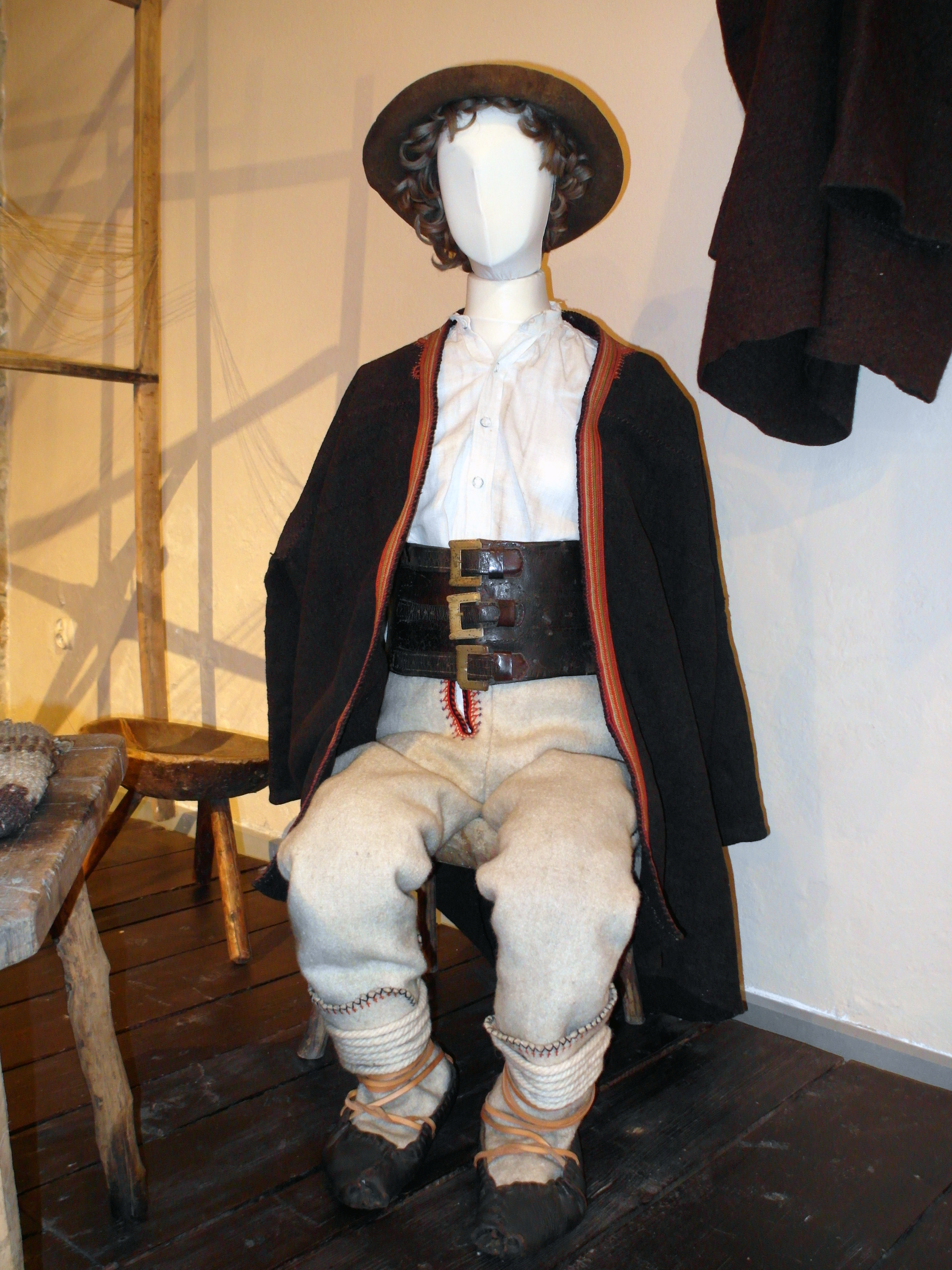 Goral from Beskid Żywiecki region in Poland, wearing traditional folk costume. Part of the ethnographic exhibition - Zywiec Town Museum.